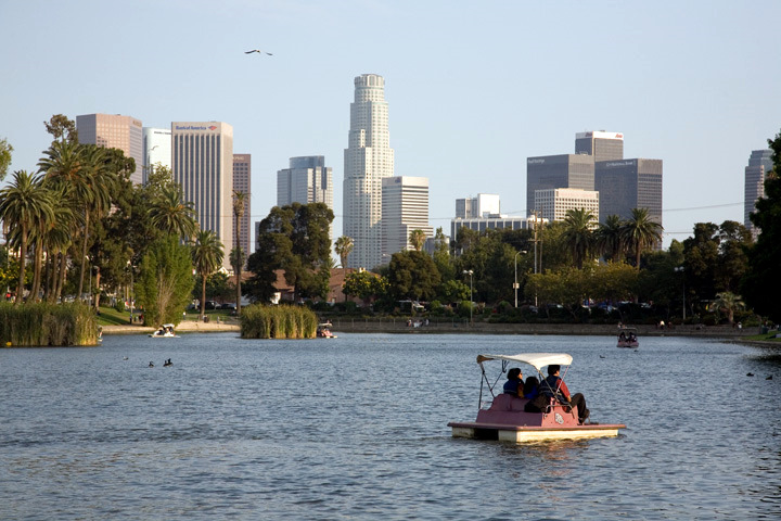 Pond in Echo Park — southeastern view of park, looking to Downtown Los Angeles skyline.